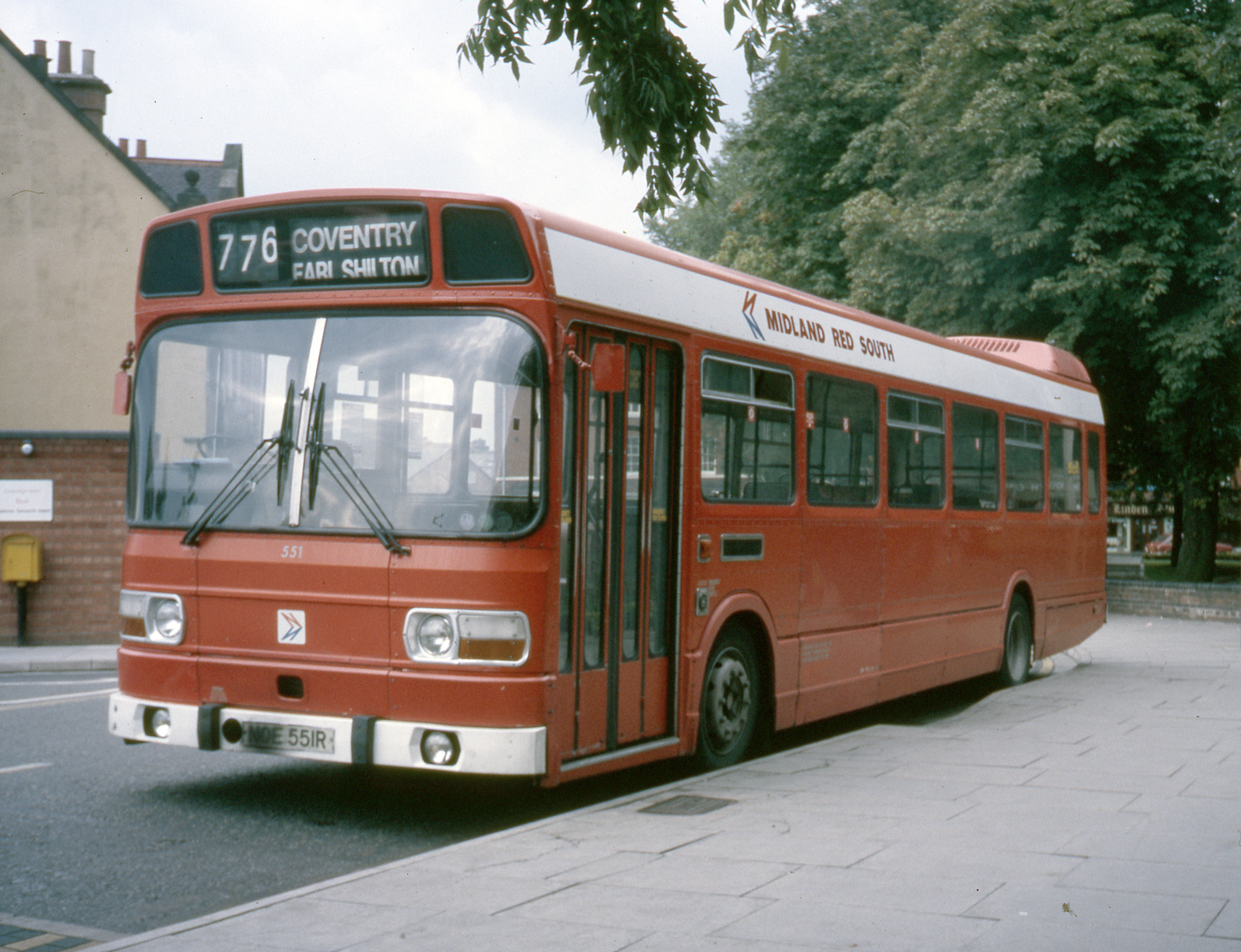 Midland Red South Leyland National 551 (NOE 551R) on Corporation Street, Tamworth, on service 776 to Coventry, summer 1986.